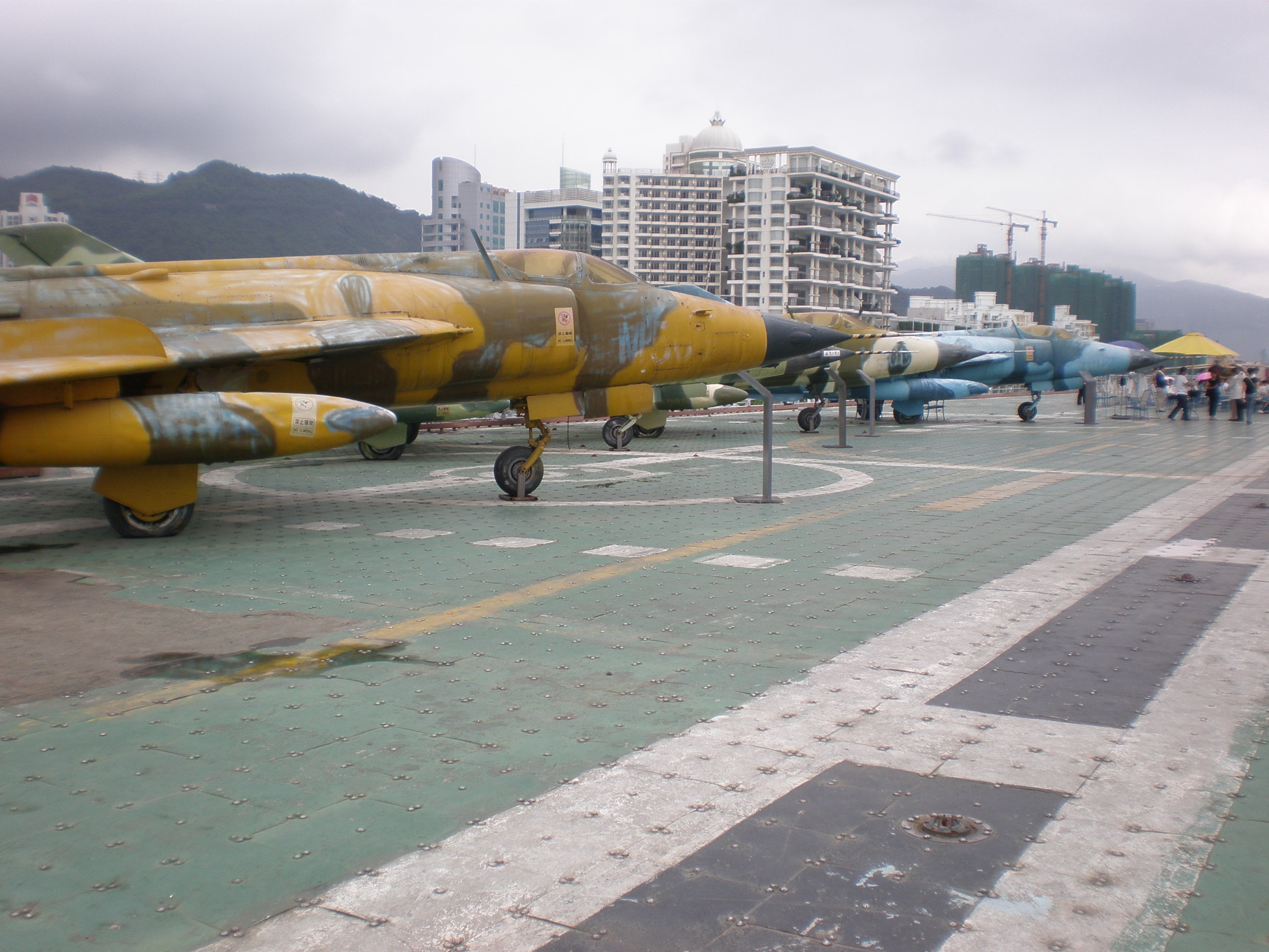 Three Nanchang Q-5s on display on the flight deck of the aircraft carrier Minsk, located at the Minsk World theme park in Shenzhen, PRC.